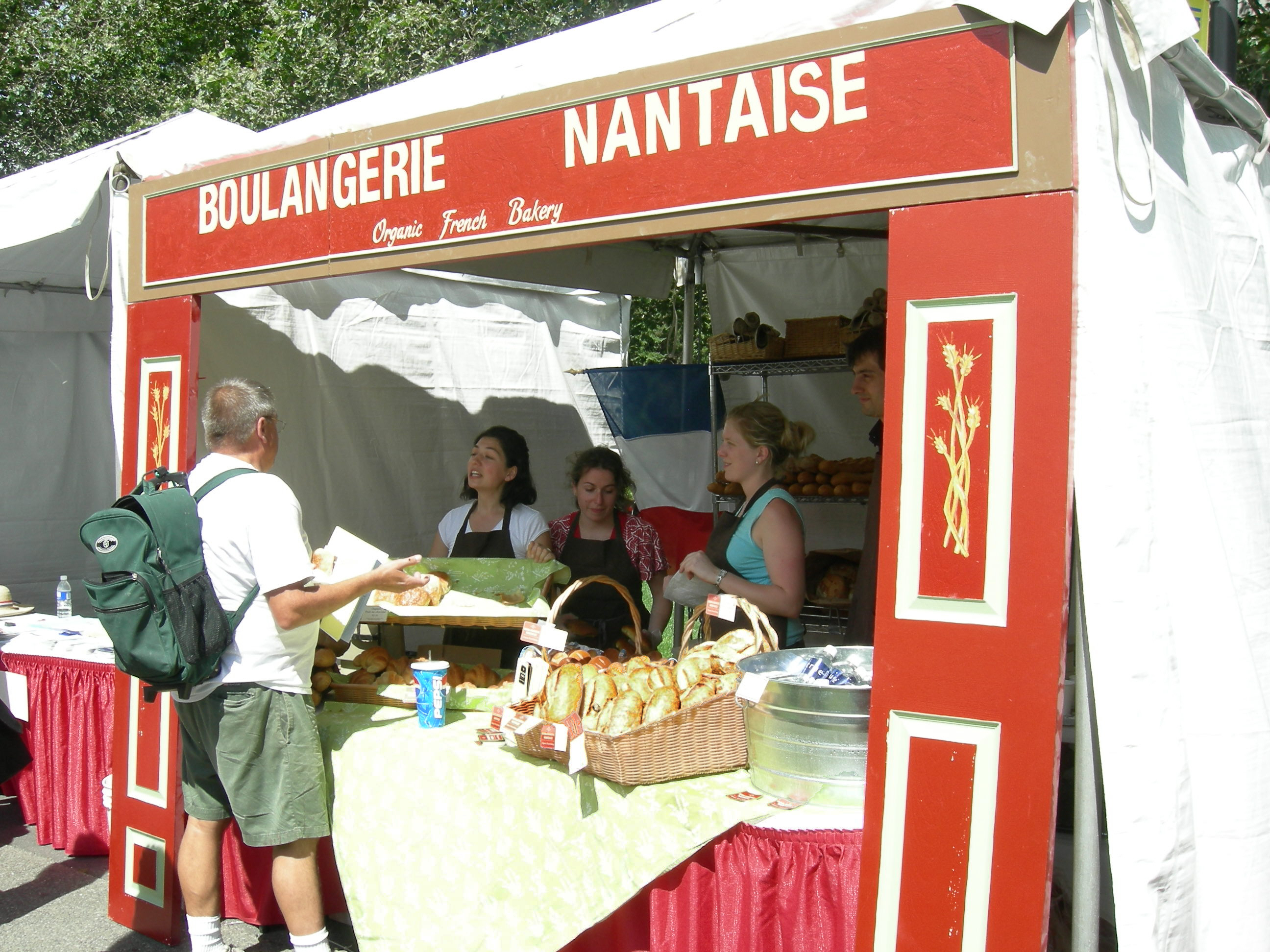 Bicyclist in front of food booth from Boulangerie Nantaise, organic French bakery, at the Bastille Day celebration that is part of the Festál series of festivals at Seattle Center, Seattle, Washington.